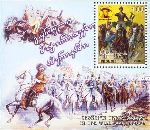 Georgian horsemen in Wild West Shows. Postal Stamp of Georgia, souvenir sheet.